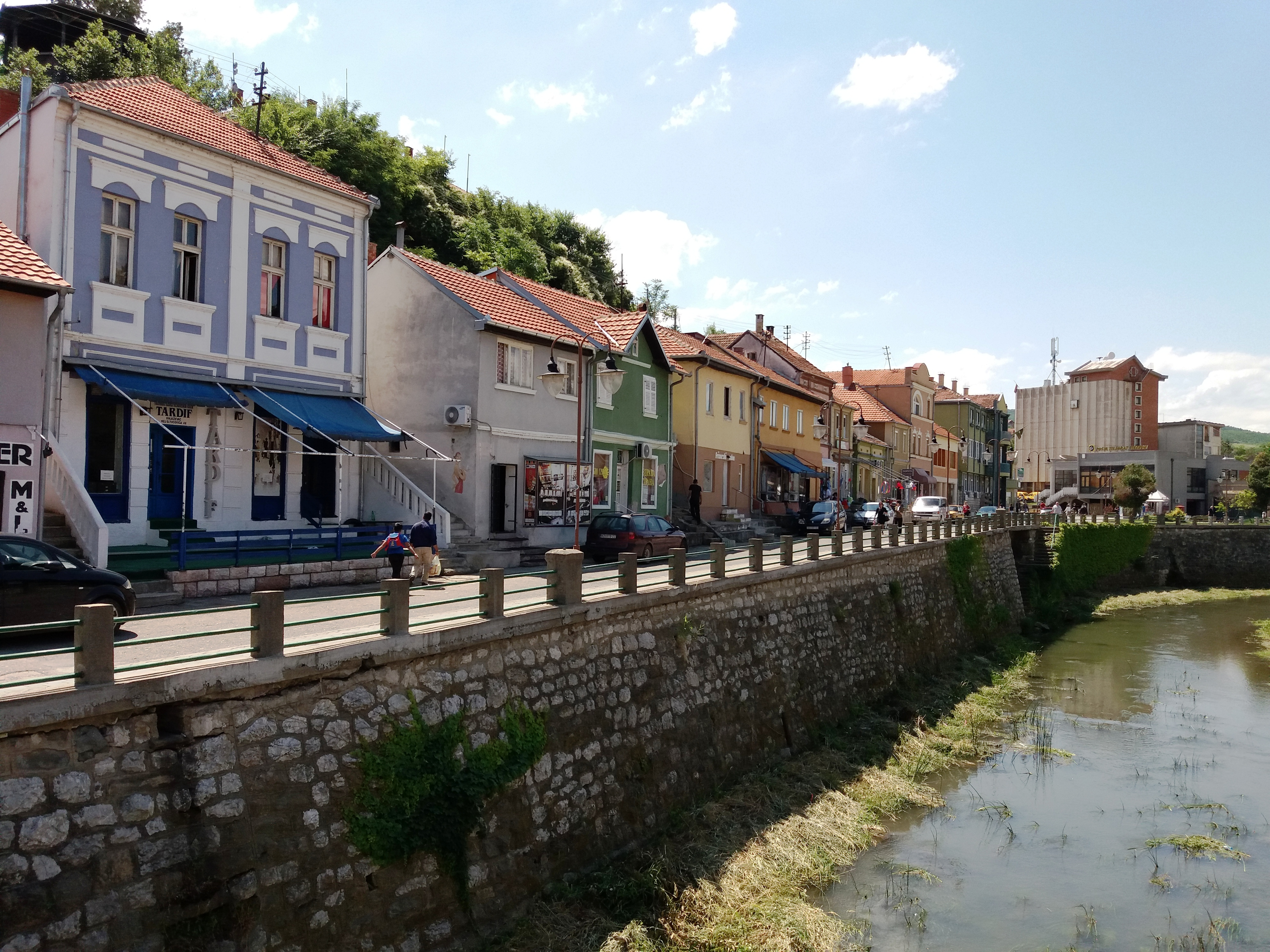 Old downtown in Knjaževac